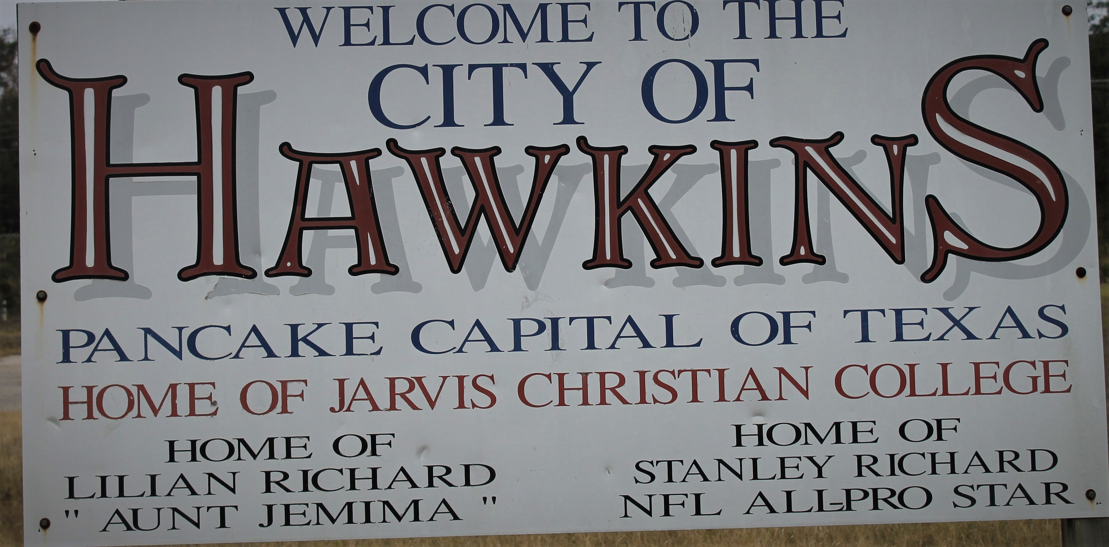 Welcome sign at Hawkins, TX